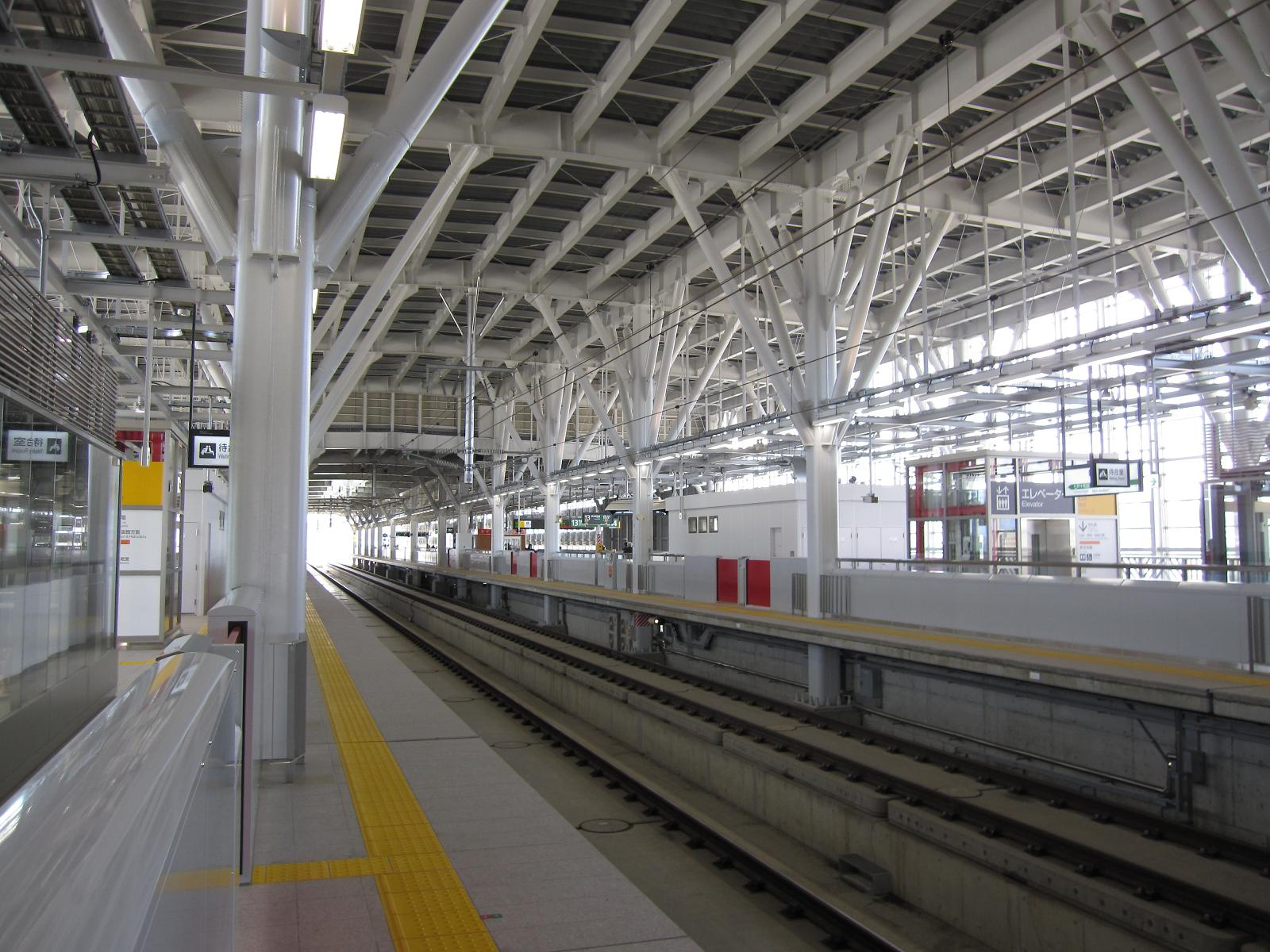 Shinkansen platforms at Shin-Aomori Station on the Tohoku Shinkansen